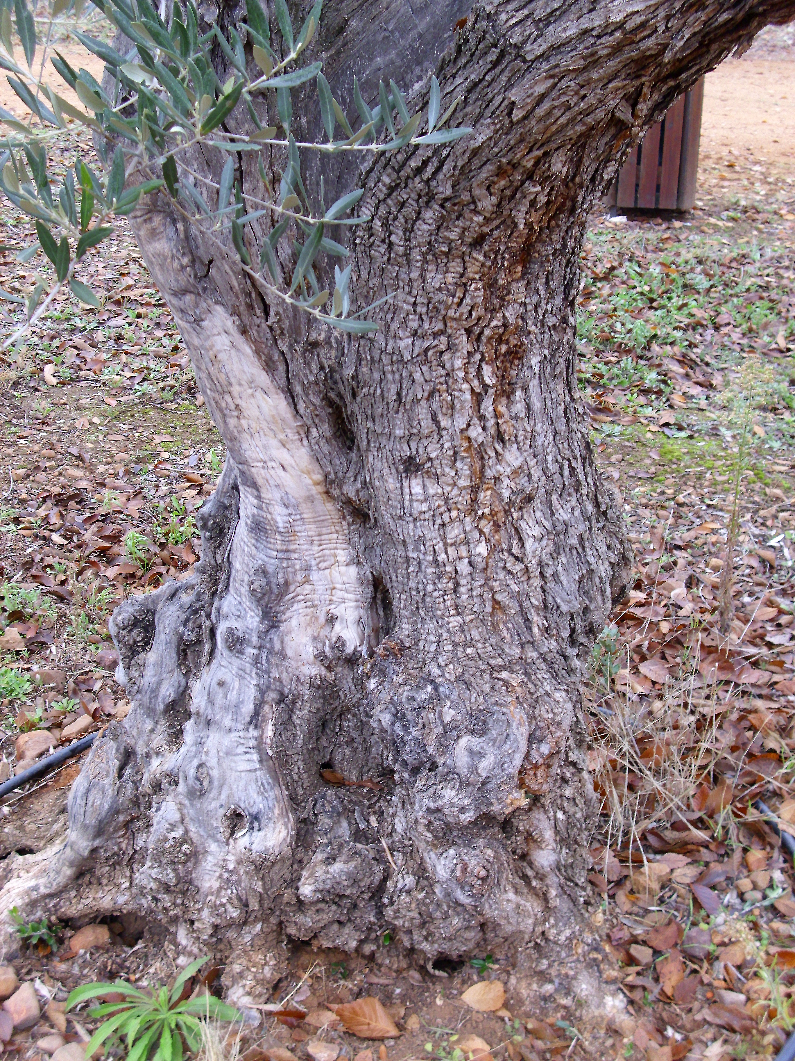 Olea europaea trunk, Dehesa Boyal de Puertollano, Spain